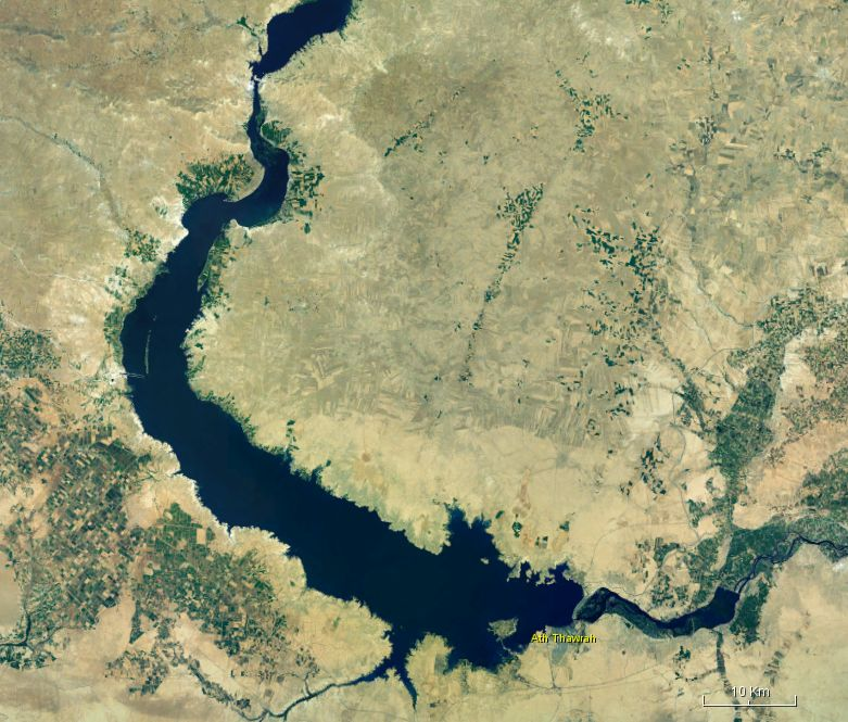 Lake Assad